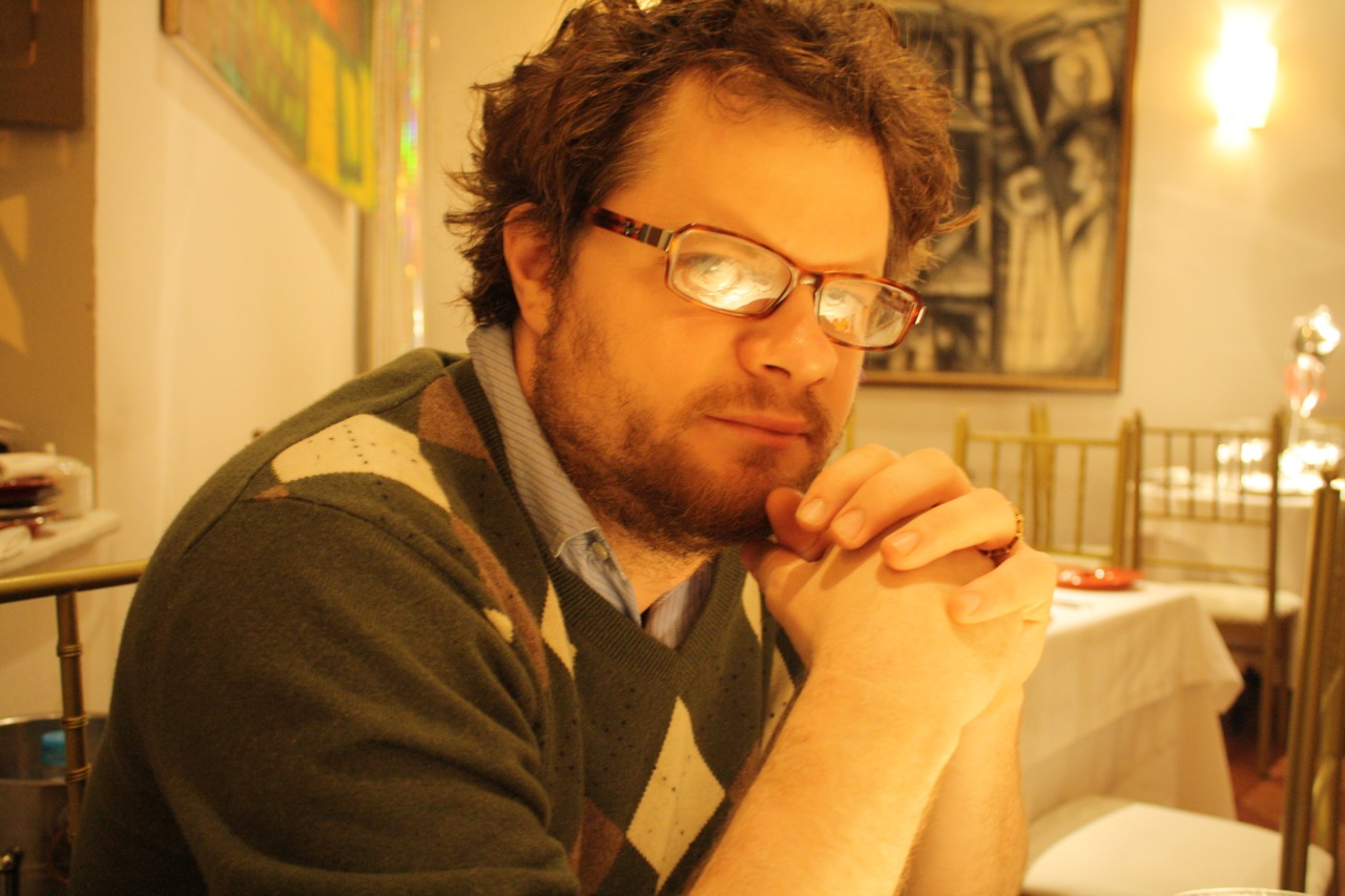 Picture of Alexander Perls